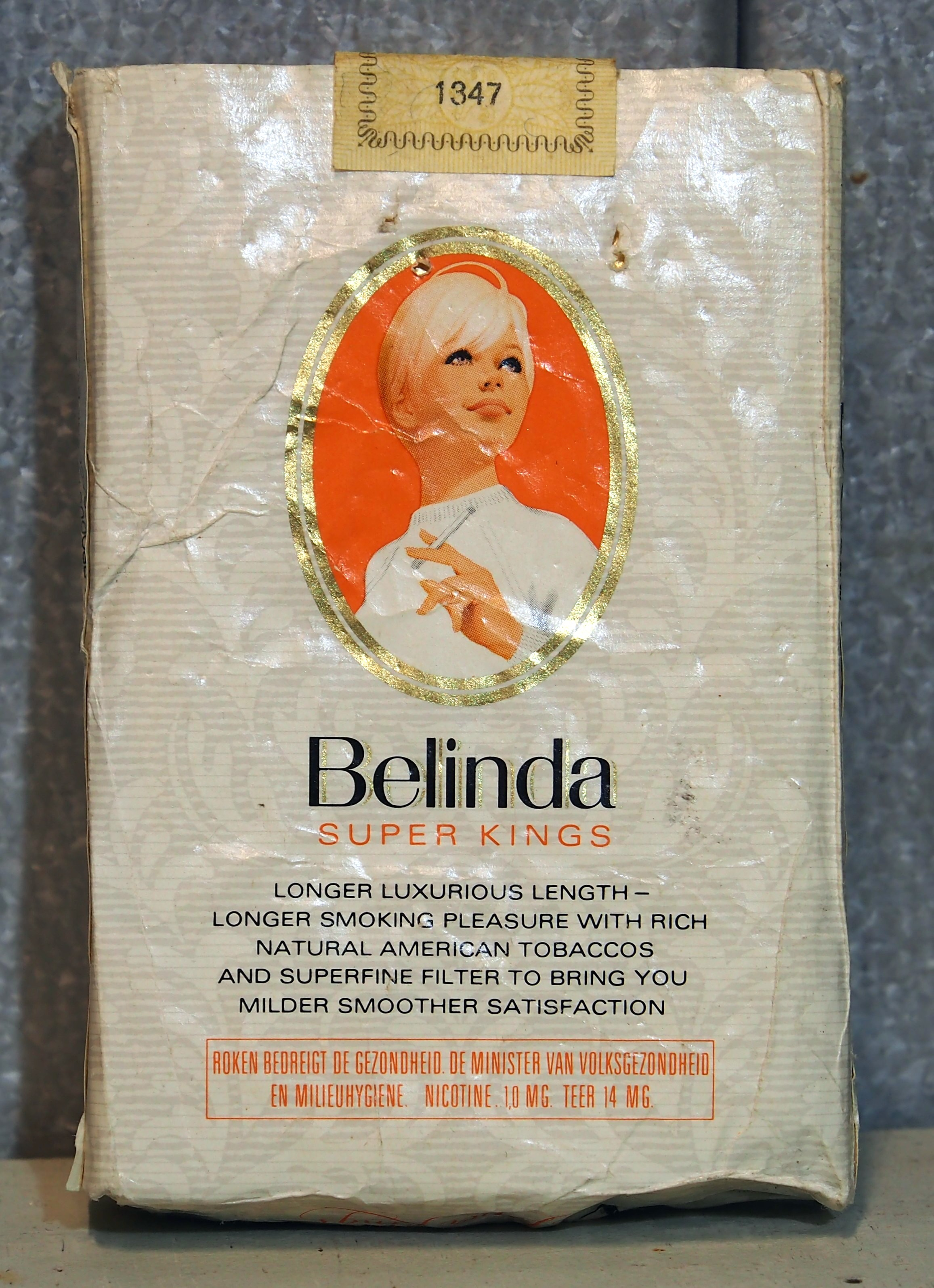 Old product not sold anymore!